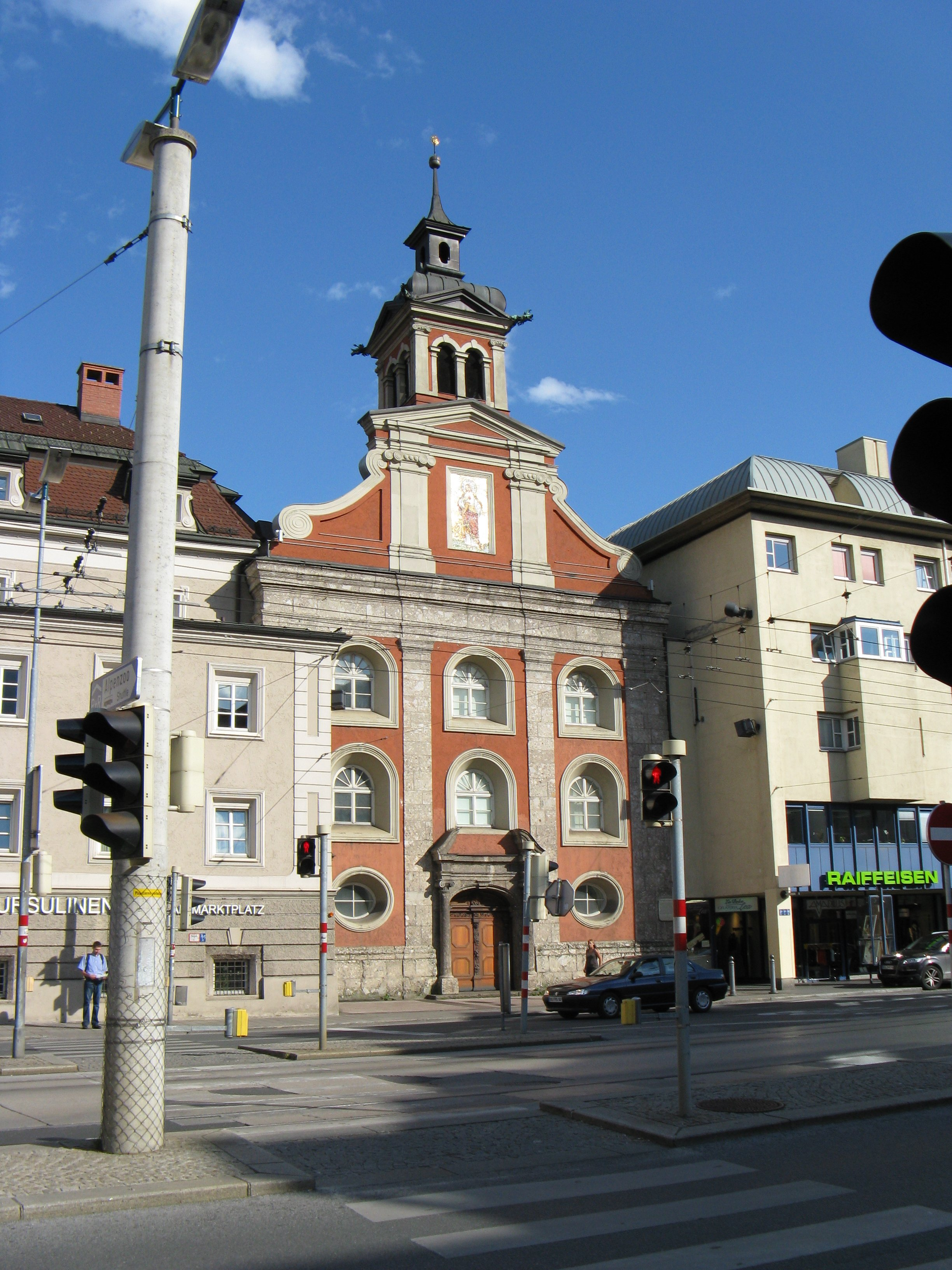 former Ursulinen church in Innsbruck, on Innrain street